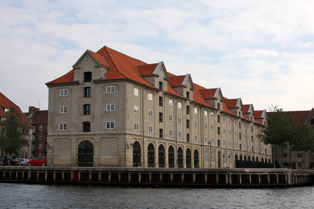 Warehouse on the waterfront of Copenhagen, Denmark (which ?)